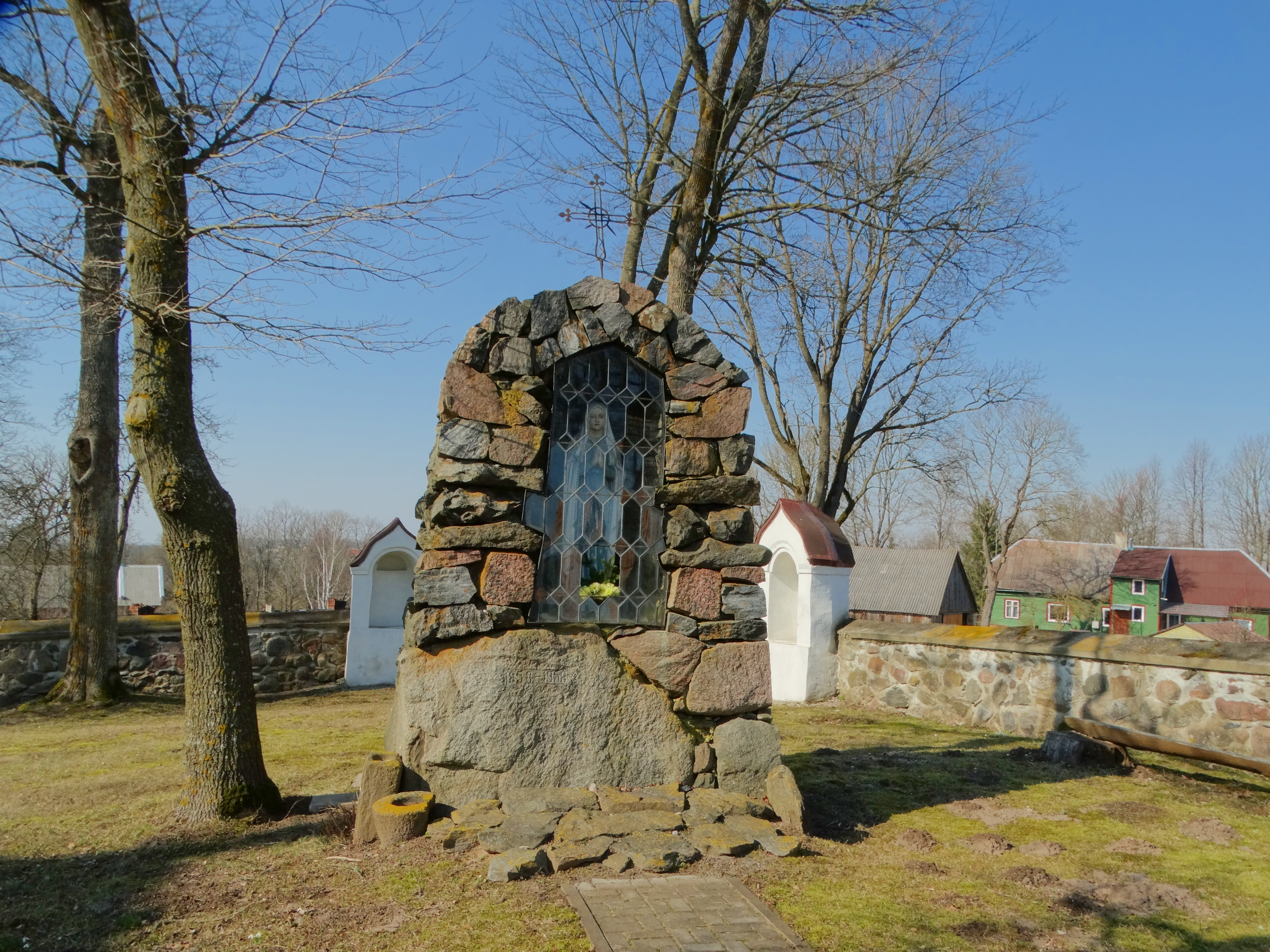 Holy Trinity Church, Tryškiai, Telšiai district, Lithuania